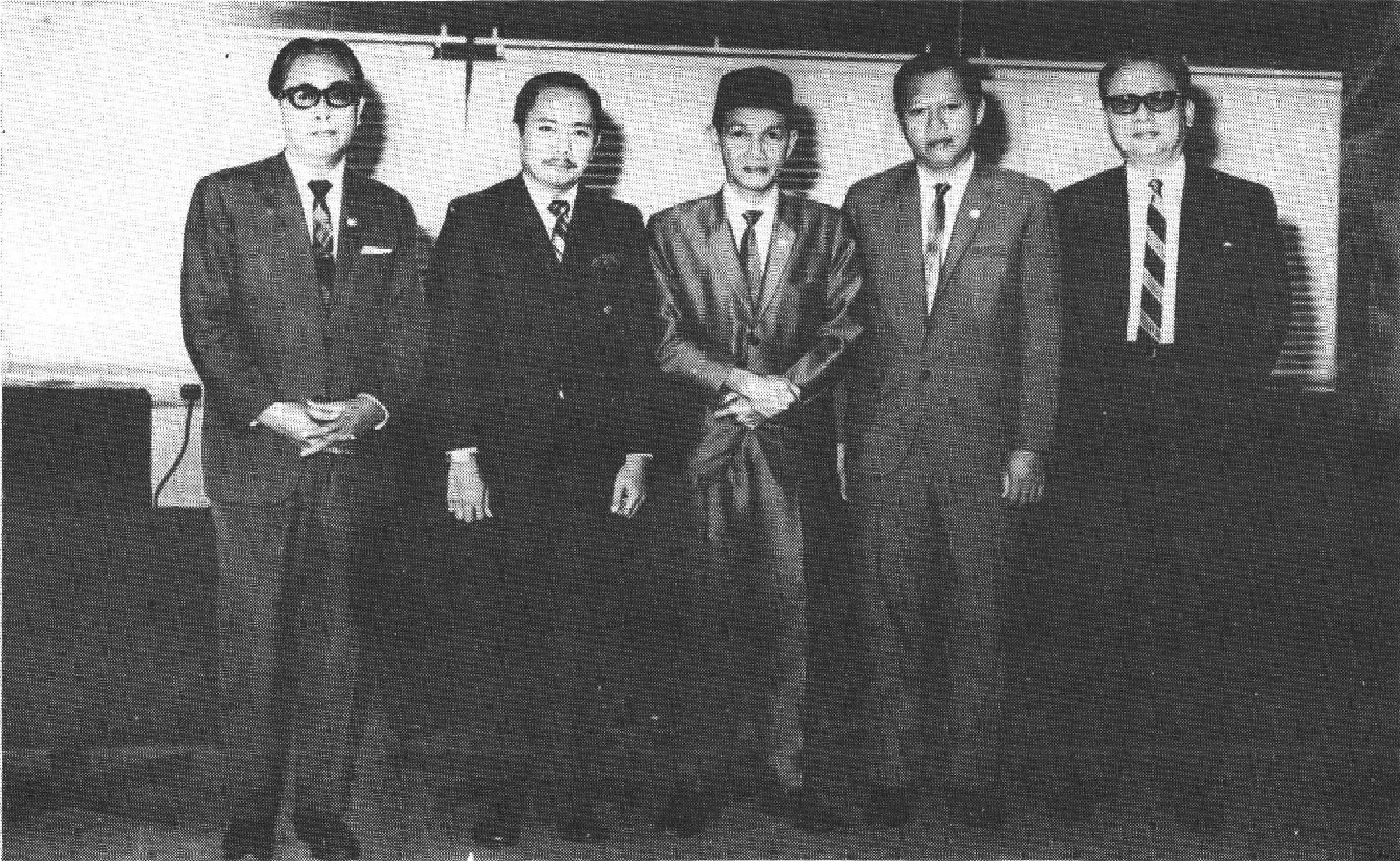 The Chairman and Vice Chairman of the People's Representative Council of Indonesia for the 1971-1977 term.